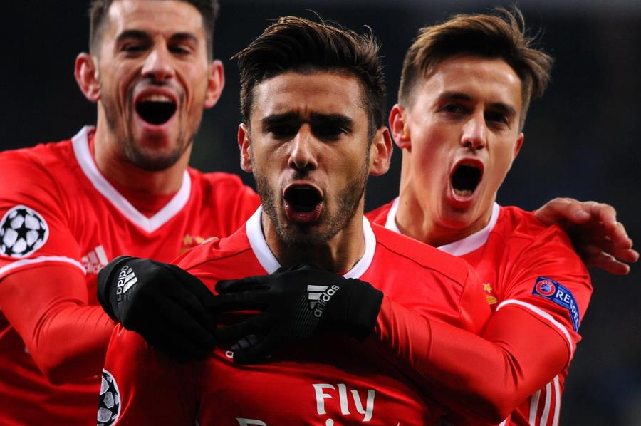 DimK-BenfikaL